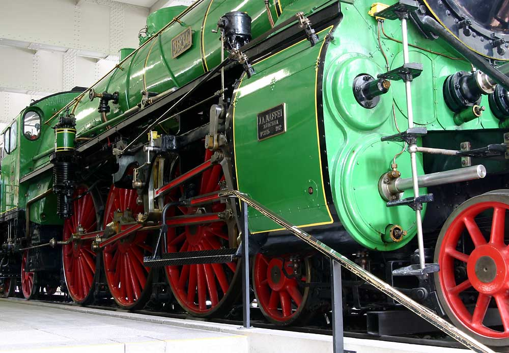 Verbunddampflokomotive S3-6-2